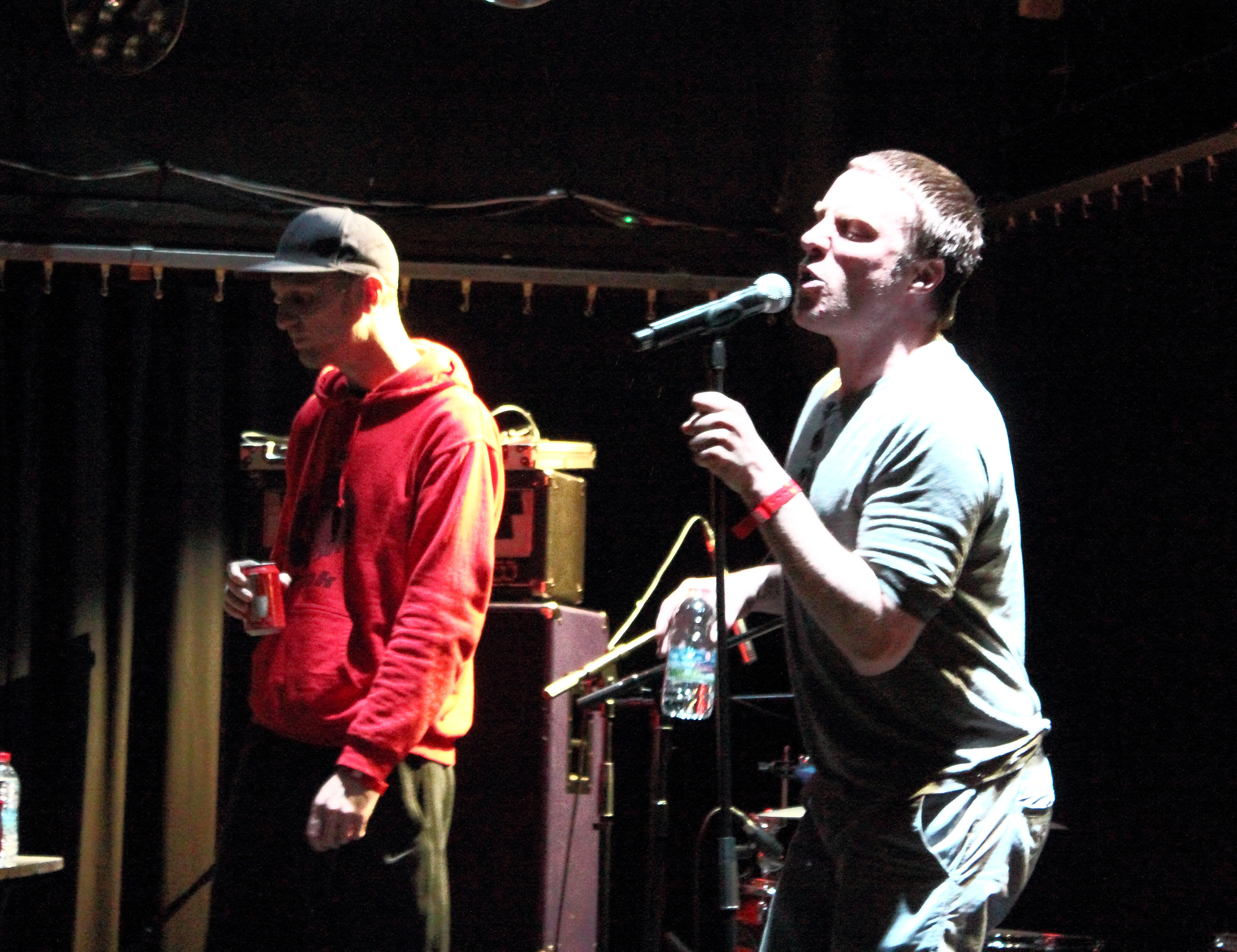 Concert de Sleaford Mods au festival Less Playboy is More Cowboy #4 au Confort Moderne - Poitiers, juin 2013. Flickr Tags: Confort Moderne Poitiers Festival less playboy is more cowboy Musique Music Rock Scene Stage Live Concert Sleaford Mods Hip hop. from Flickr album "Le Confort Moderne" by Xi WEG from Poitiers, France